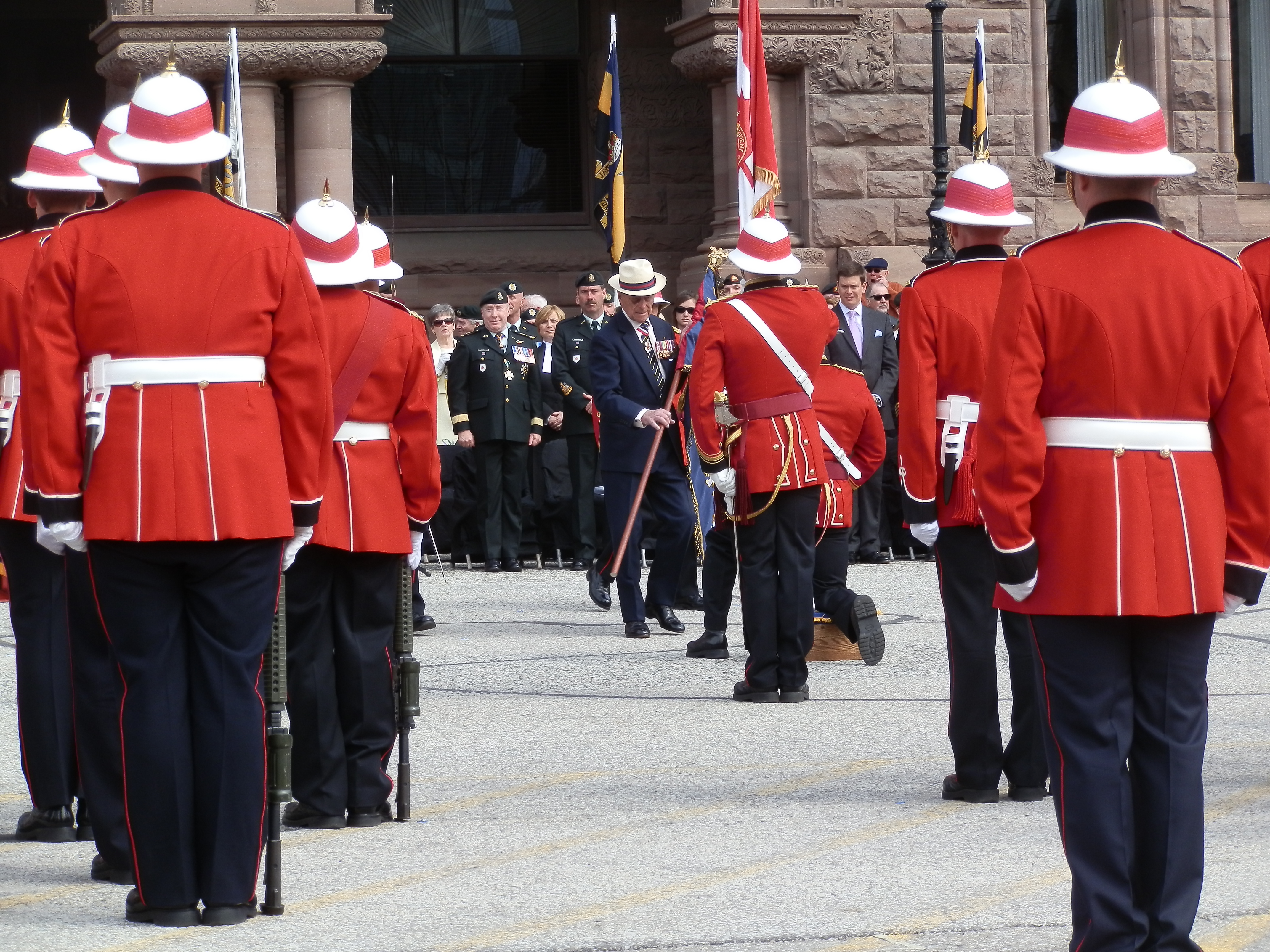 The Duke of Edinburgh presenting a new regimental colour to the 3rd Battalion The Royal Canadian Regiment